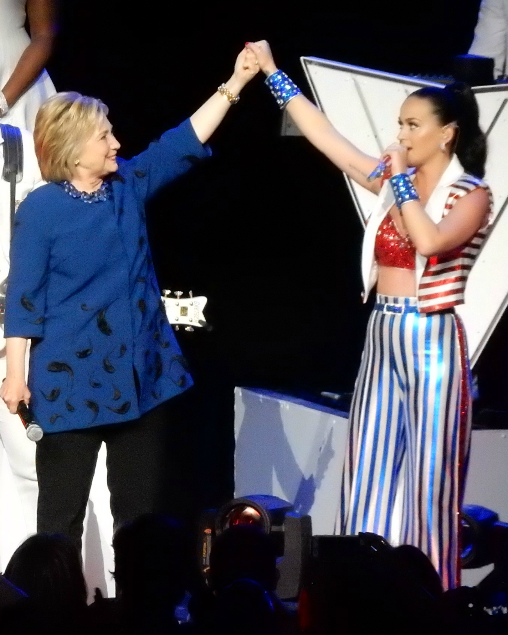 Hillary Clinton and Katy Perry at the I'm With Her Concert for Hillary Clinton at Radio City Music Hall